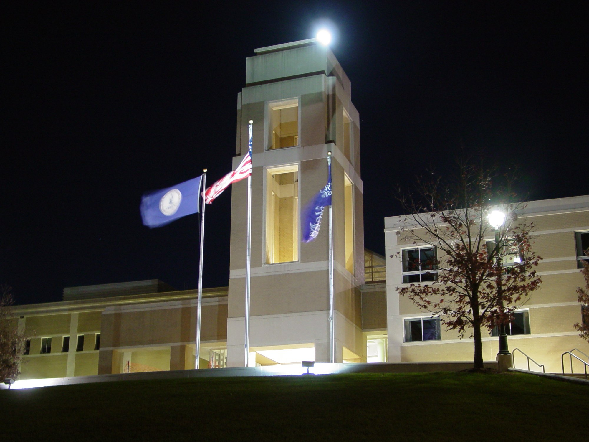 ISAT/CS Building on the east campus of James Madison University in Harrisonburg, Virginia.